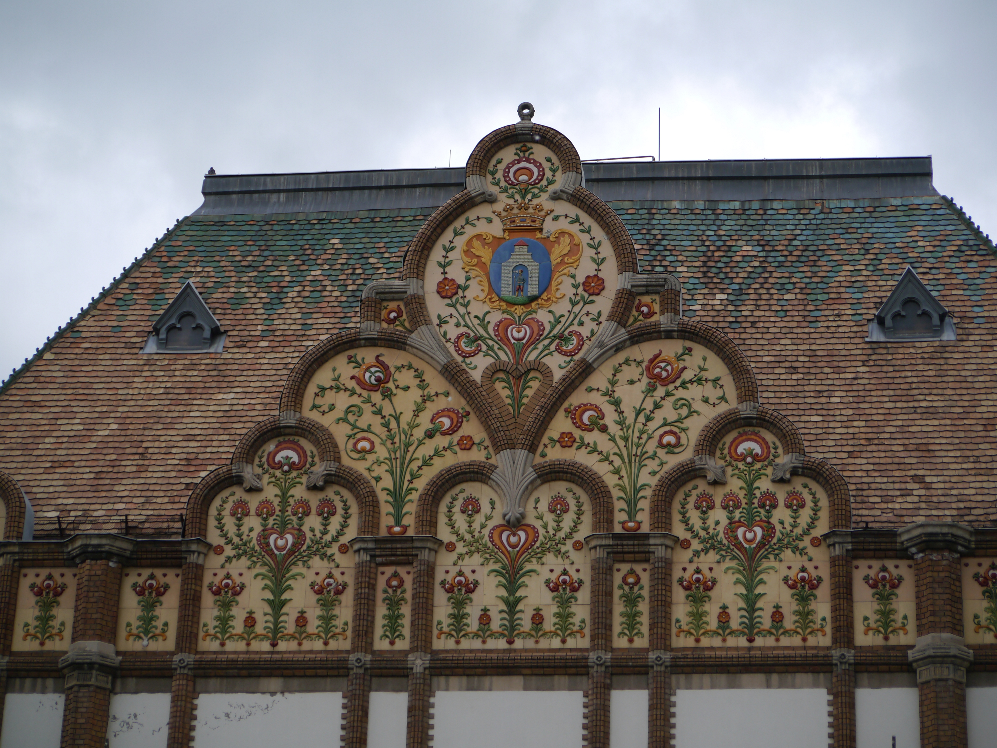 Roof of the Town Hall, Kiskunfélegyháza, Southern Hungary